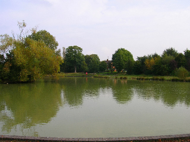 Hailsham Common Pond. What used to be a pond on a common is now part of a park within the small town of Hailsham. This view looks east.